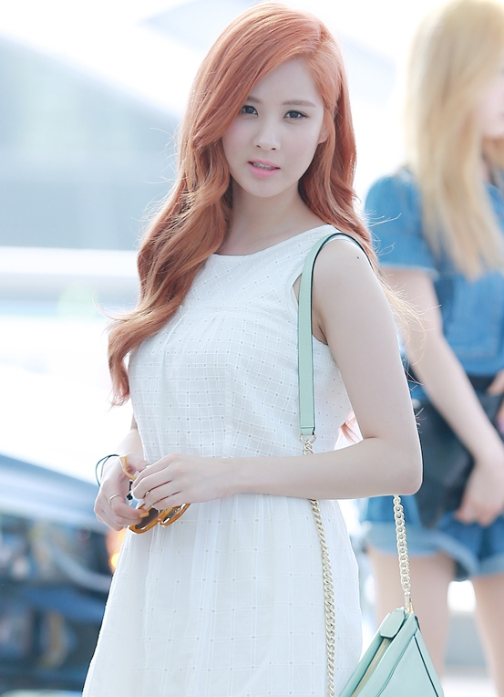 Seohyun at Incheon Airport on June 10, 2015.